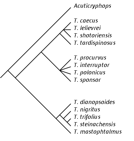 Cladogram depicting the supposed relationships between most know species of the genus Trimerocephalus, order Phacopida, family Phacopidae, based on Crônier, C. (2003). "Systematic relationships of the blind phacopine trilobite Trimerocephalus, with a new species from Causses−et−Veyran, Montagne Noire". Acta Palaeontologica Polonica 48(1): 55–70